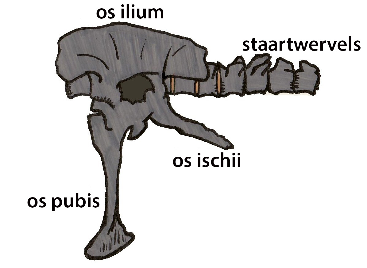 Dutch version of Illustration of the pelvis from the theropod dinosaur Siamotyrannus isanensis. Siamotyrannus lived in Thailand, according to scientists about 90 MYA. It has been estimated to a length of 7 meter, and a weight of about 2 tonnes. Scientists has been uncertain if Siamotyrannus is a member of the family Tyrannosauridae or to Sinraptoridae.